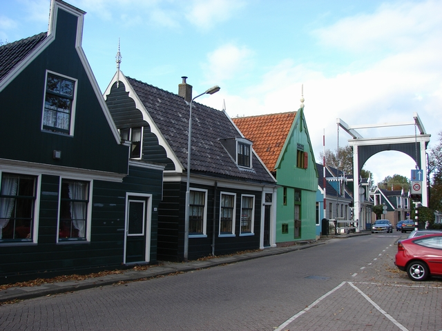 Zaandam houses